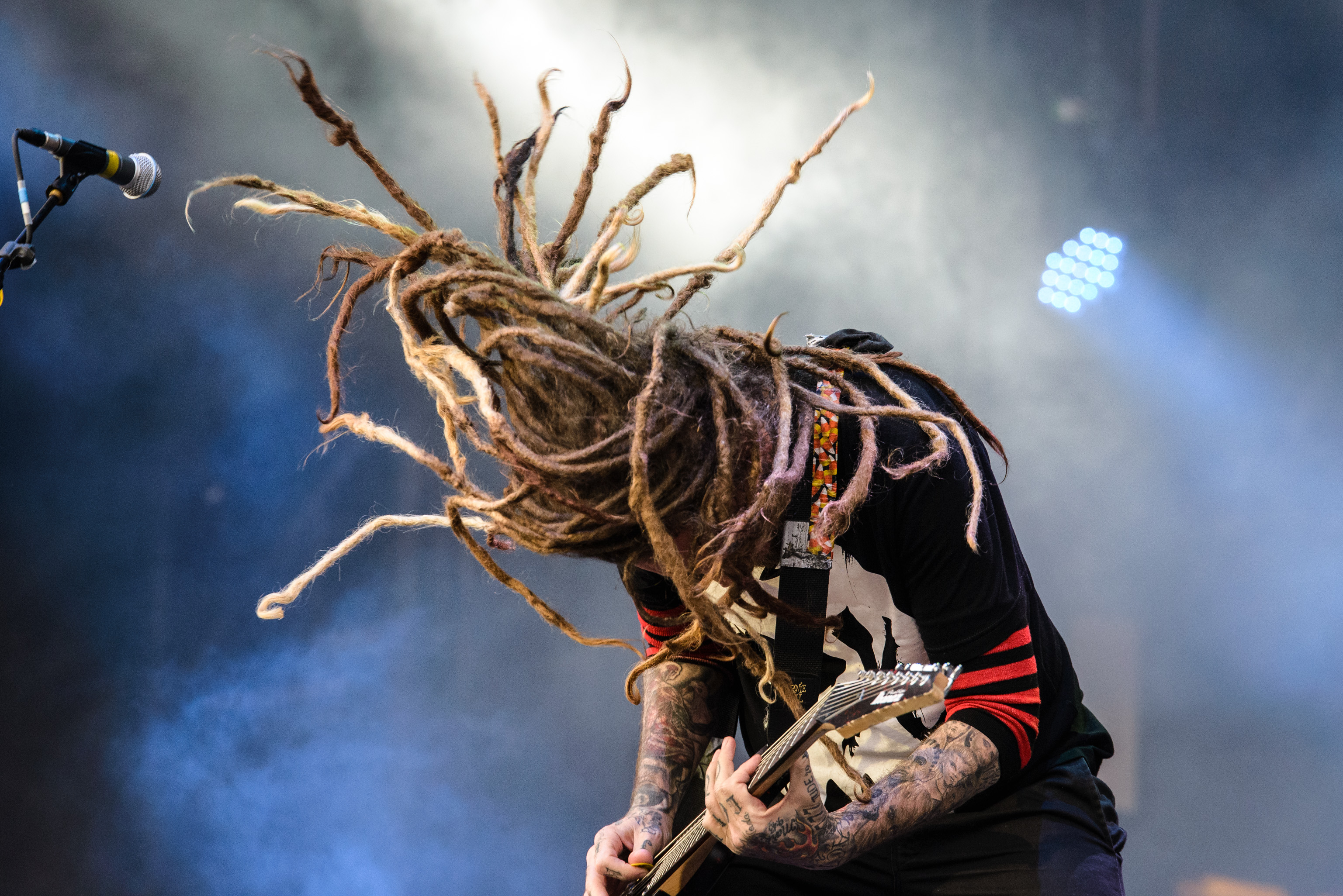 Korn Live @ Rock im Park 2016